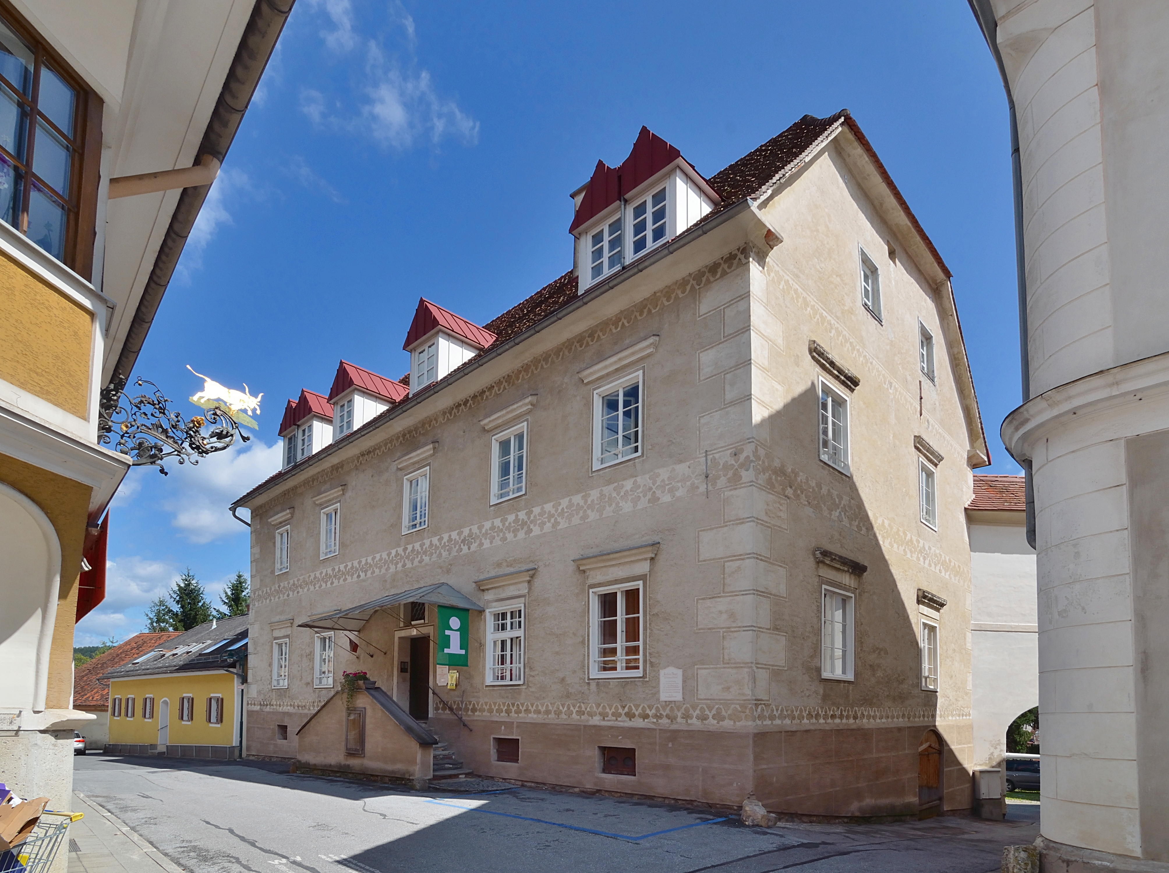 So called Stainpeißhaus at the main square of Anger, Styria.